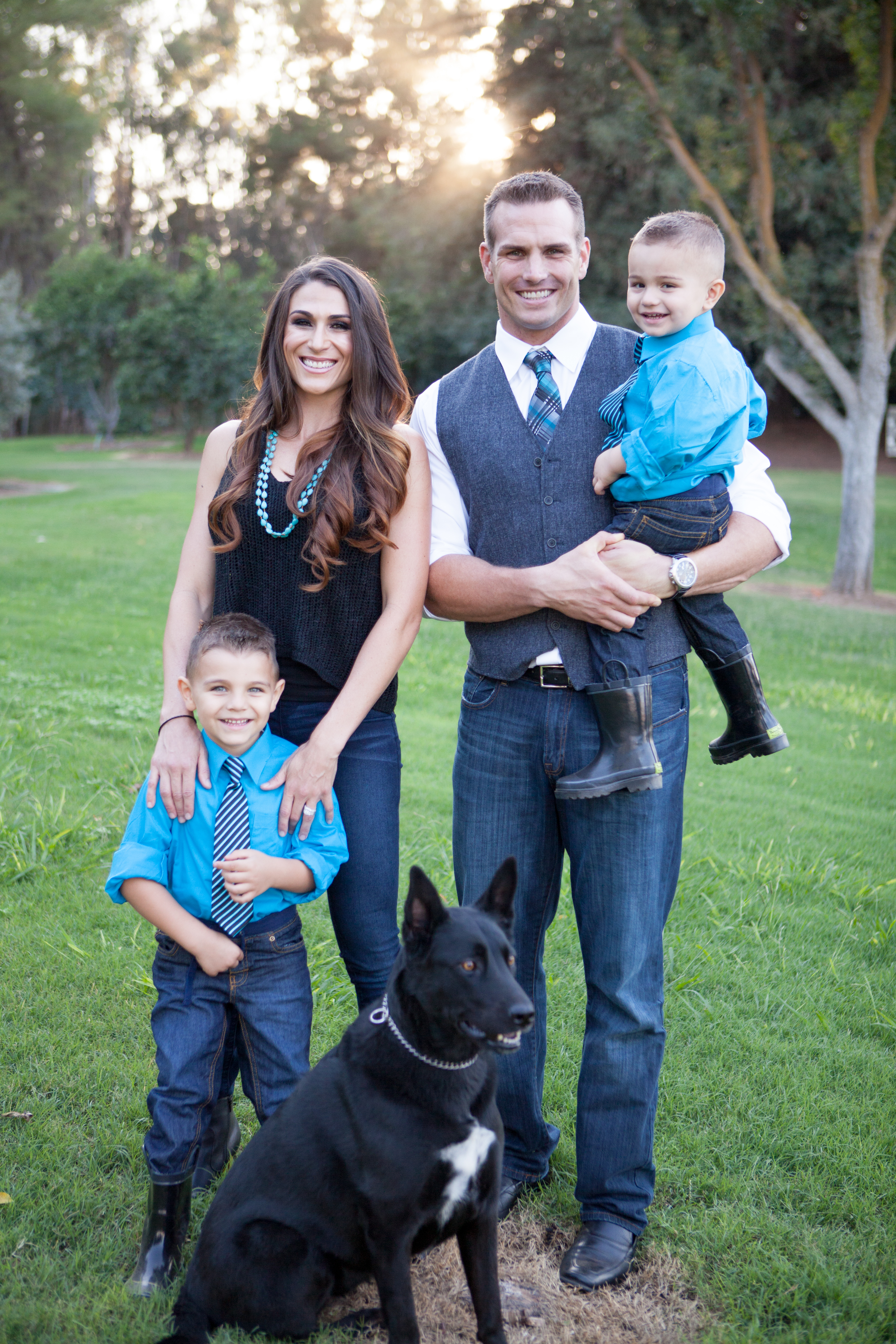 Stephen Spach with family in 2015 in California